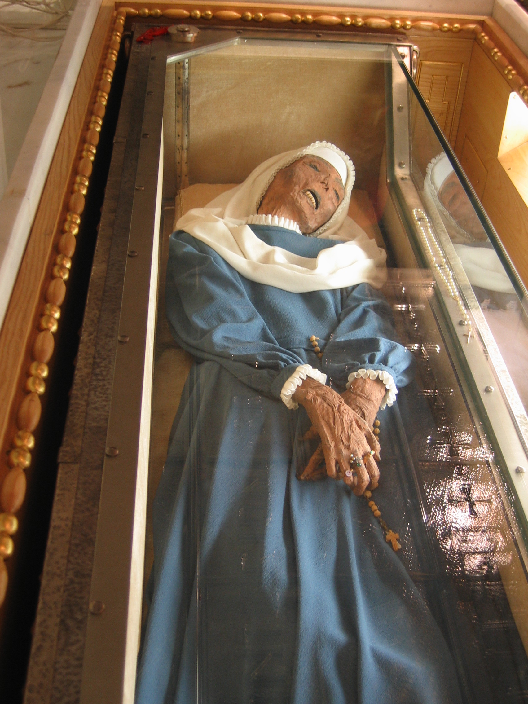 The almost uncorrupted body of Saint Virginia Centurione Bracelli, a Genoa XVI century woman.